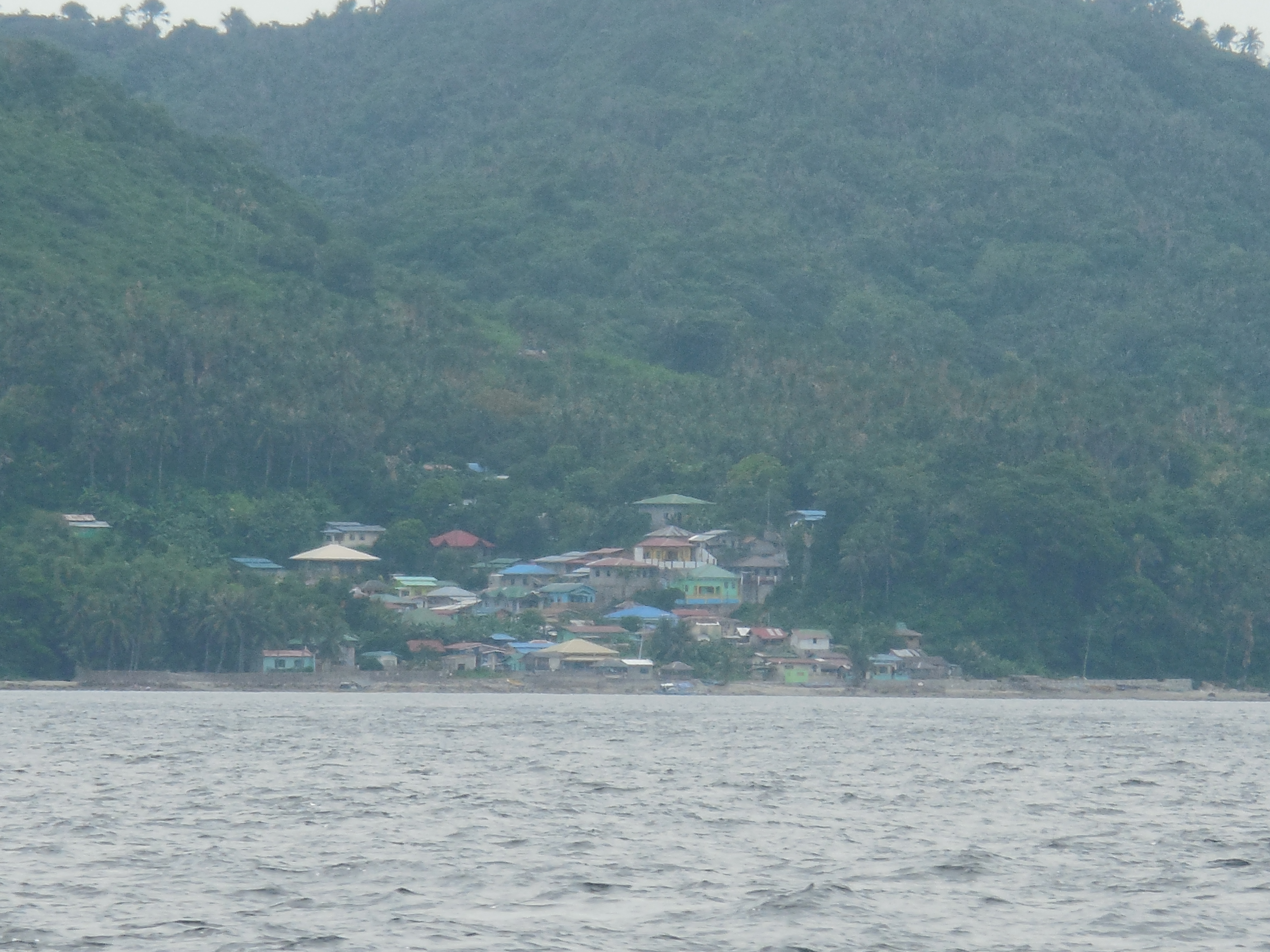 A fishing village in Tingloy, Batangas Province, taken aboard an outrigger boat headed for Batangas City.